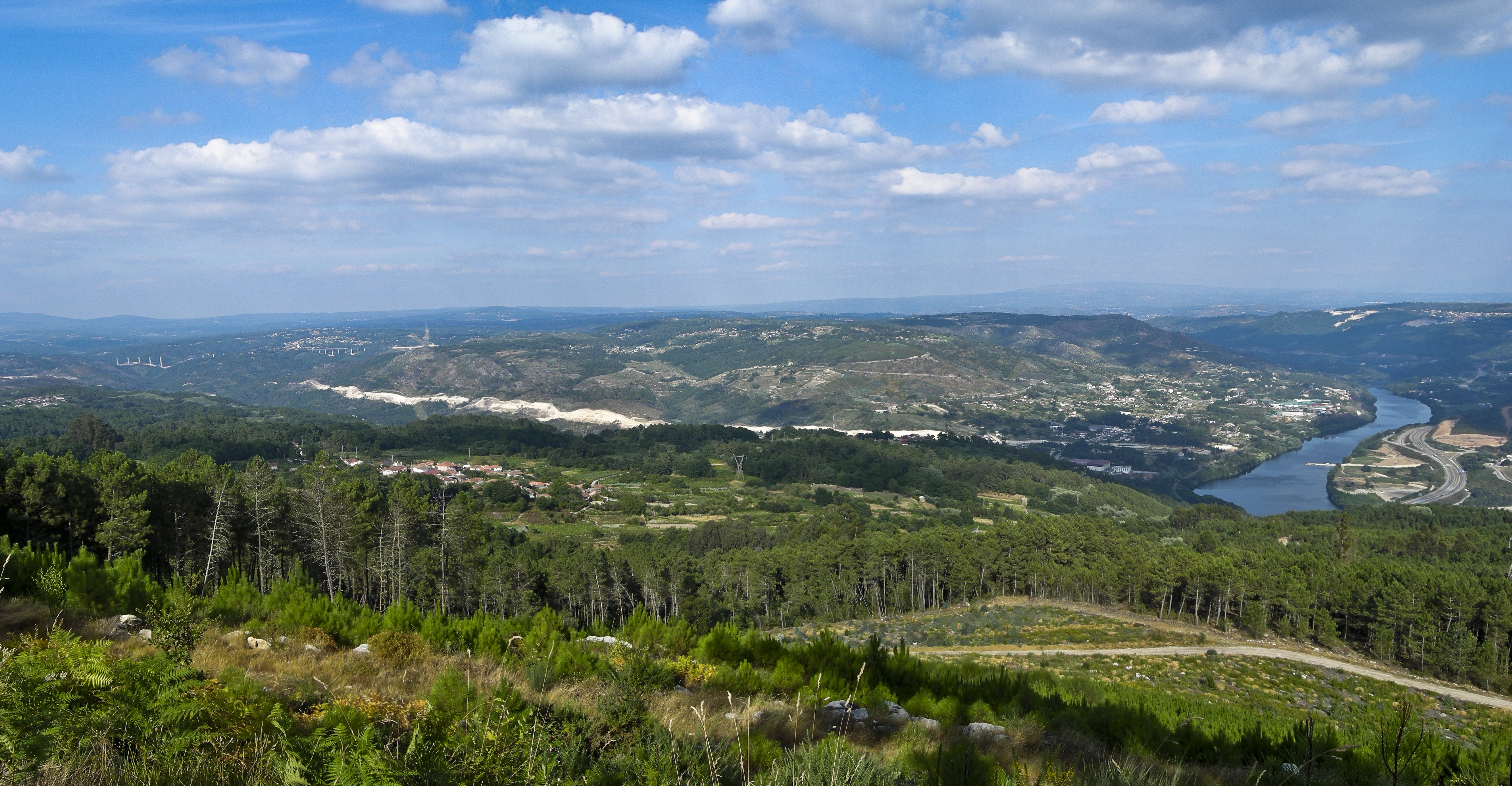 Panoramic view of Minho river.